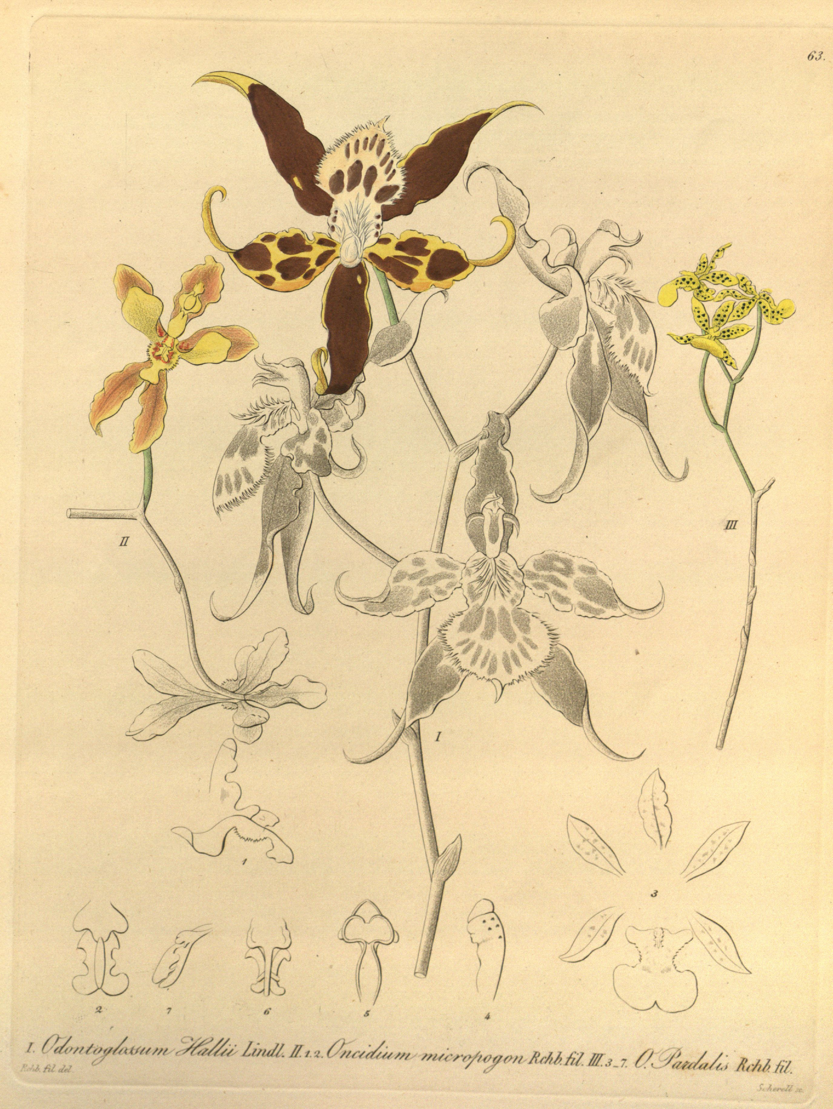 Illustration of Oncidium hallii (as syn. Odontoglossum hallii) (I, center), Gomesa micropogon (as syn. Oncidium micropogon) (II, left) Oncidium lentiginosum (as syn. Oncidium pardalis) (III, right)